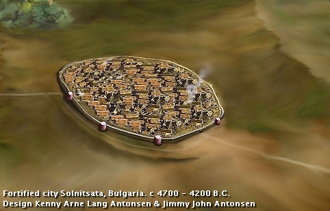 Fortified city Solnitsata, Bulgaria, 4700 - 4200 B.C.